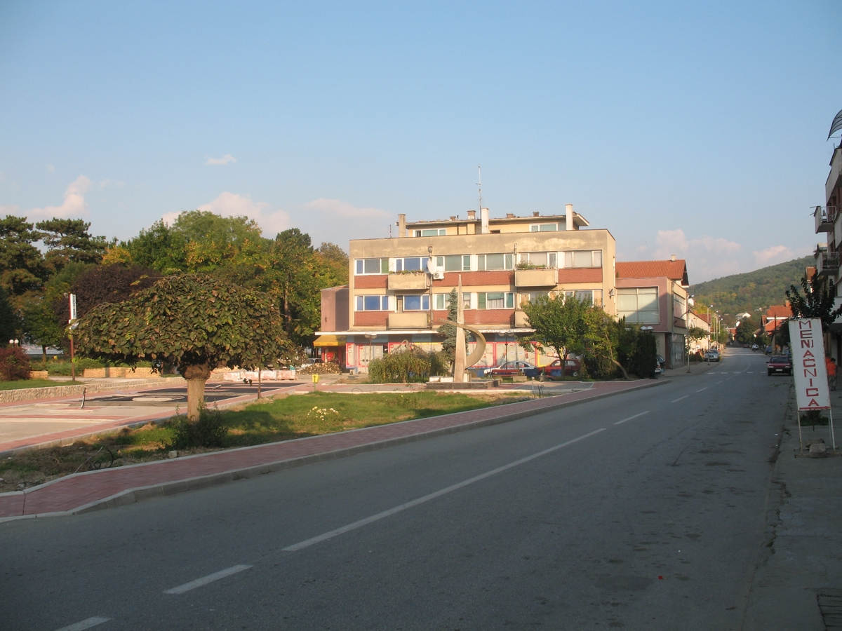 Center of Golubac, on Danube, Serbia.